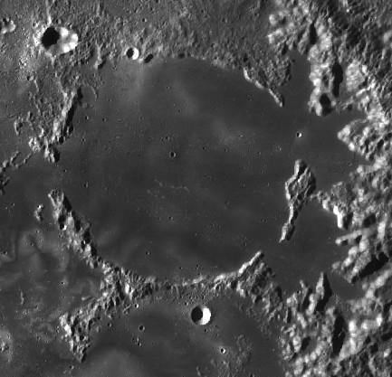 Thomson far side lunar crater - LROC image. Mare Ingenii east rim at right border.